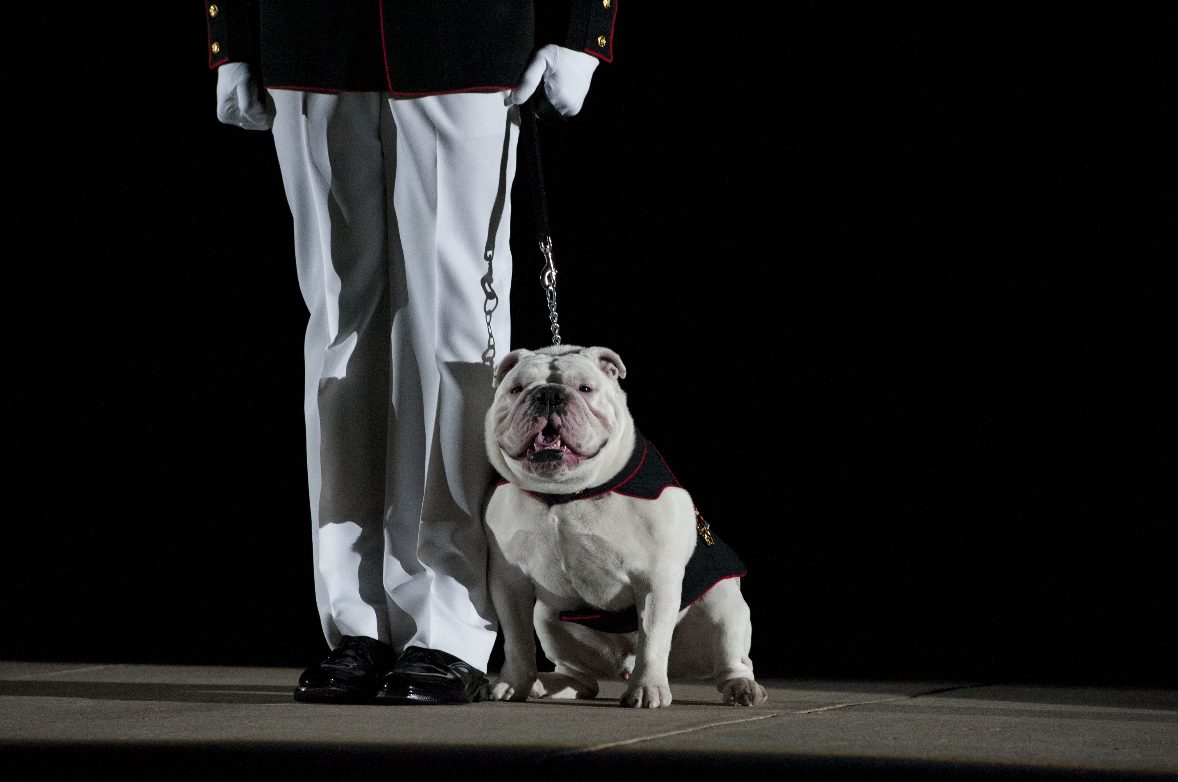 Chesty XIII, mascot of the Marine Corps, poses at center walk during an evening parade in honor of Defense Secretary Leon E. Panetta at Marine Barracks Washington May 18, 2012 in Washington D.C.